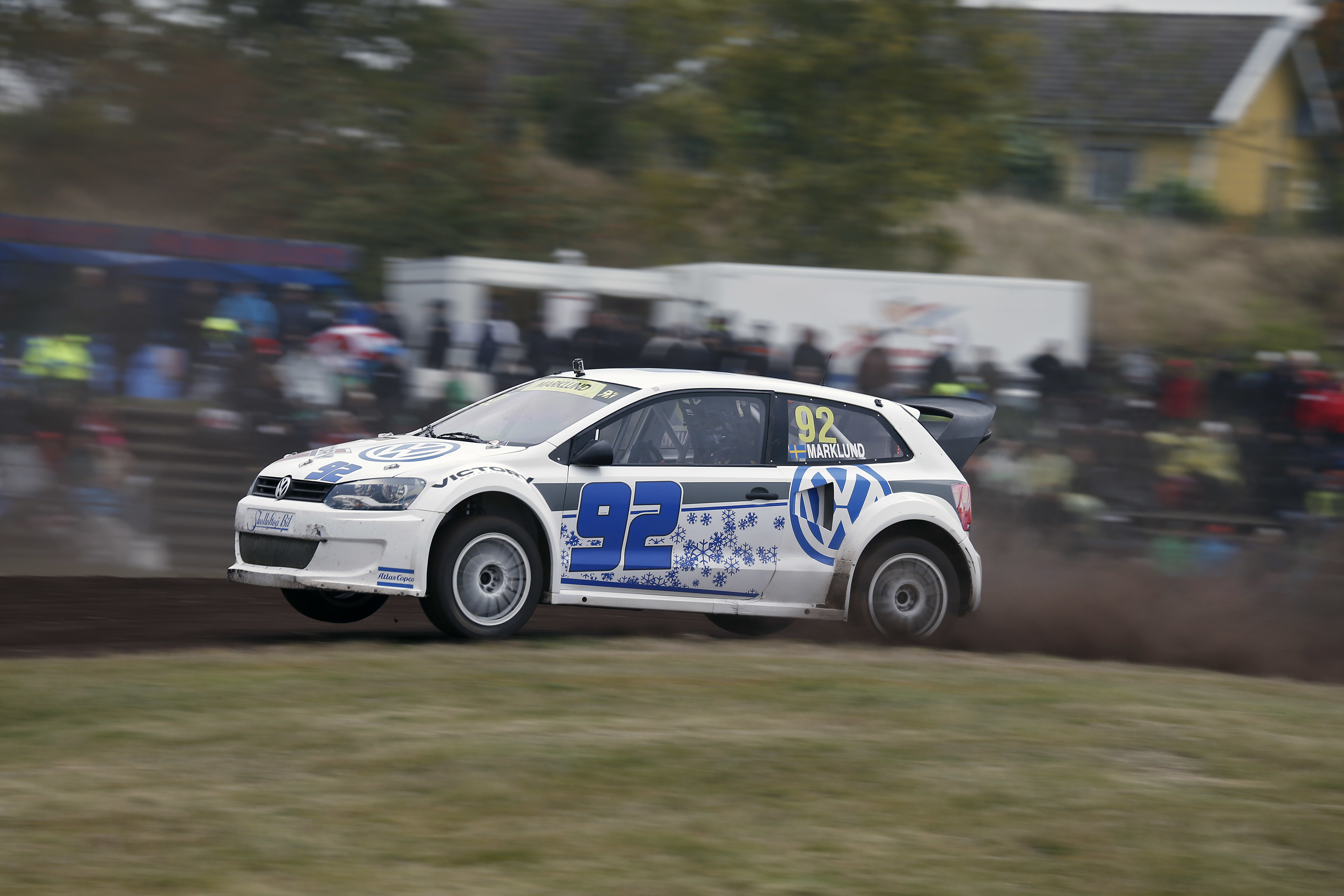 Rallycross driver Anton Marklund at the National Swedish Rallycross Championships, Kinnekulle Ring.